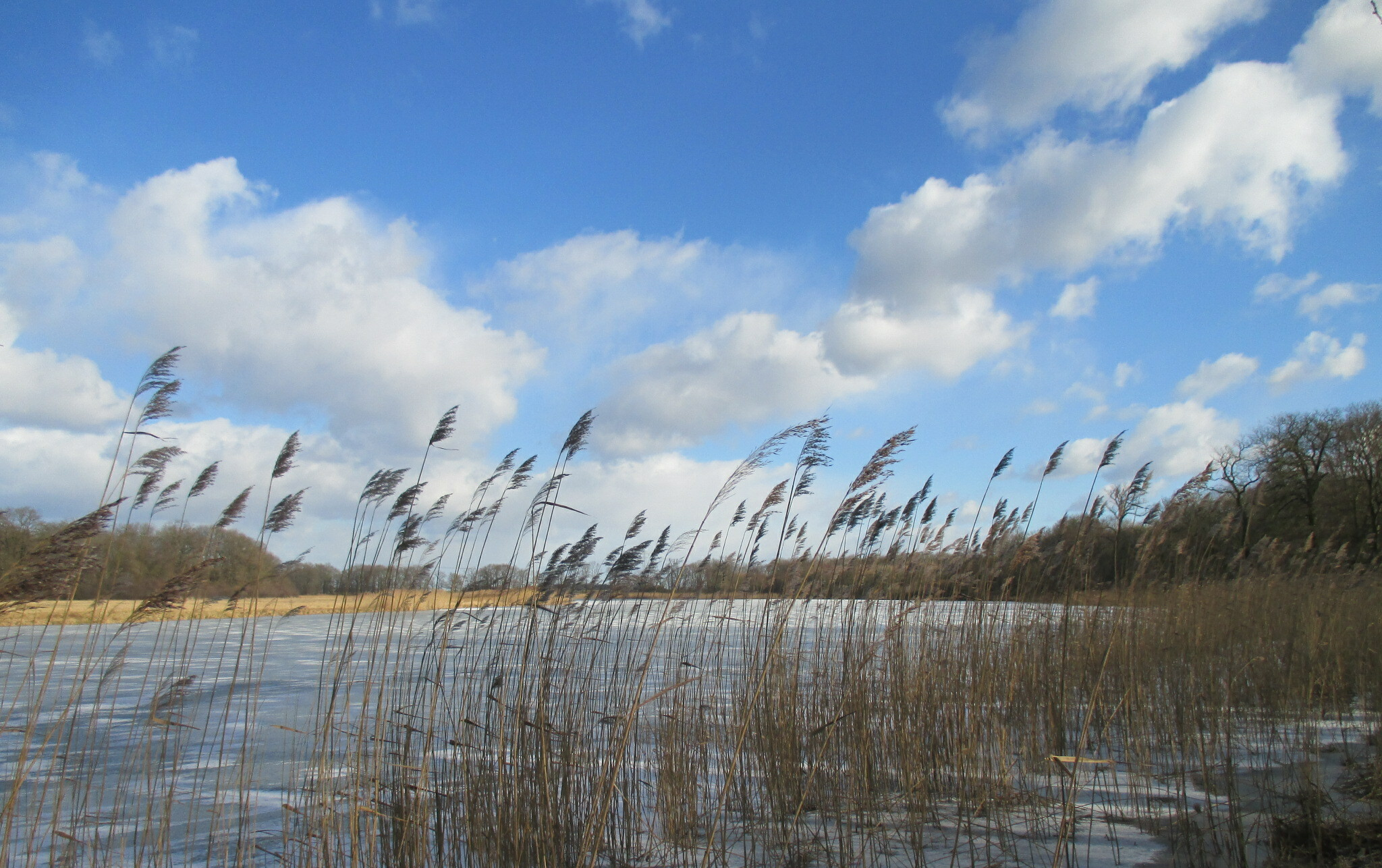 Crassensee